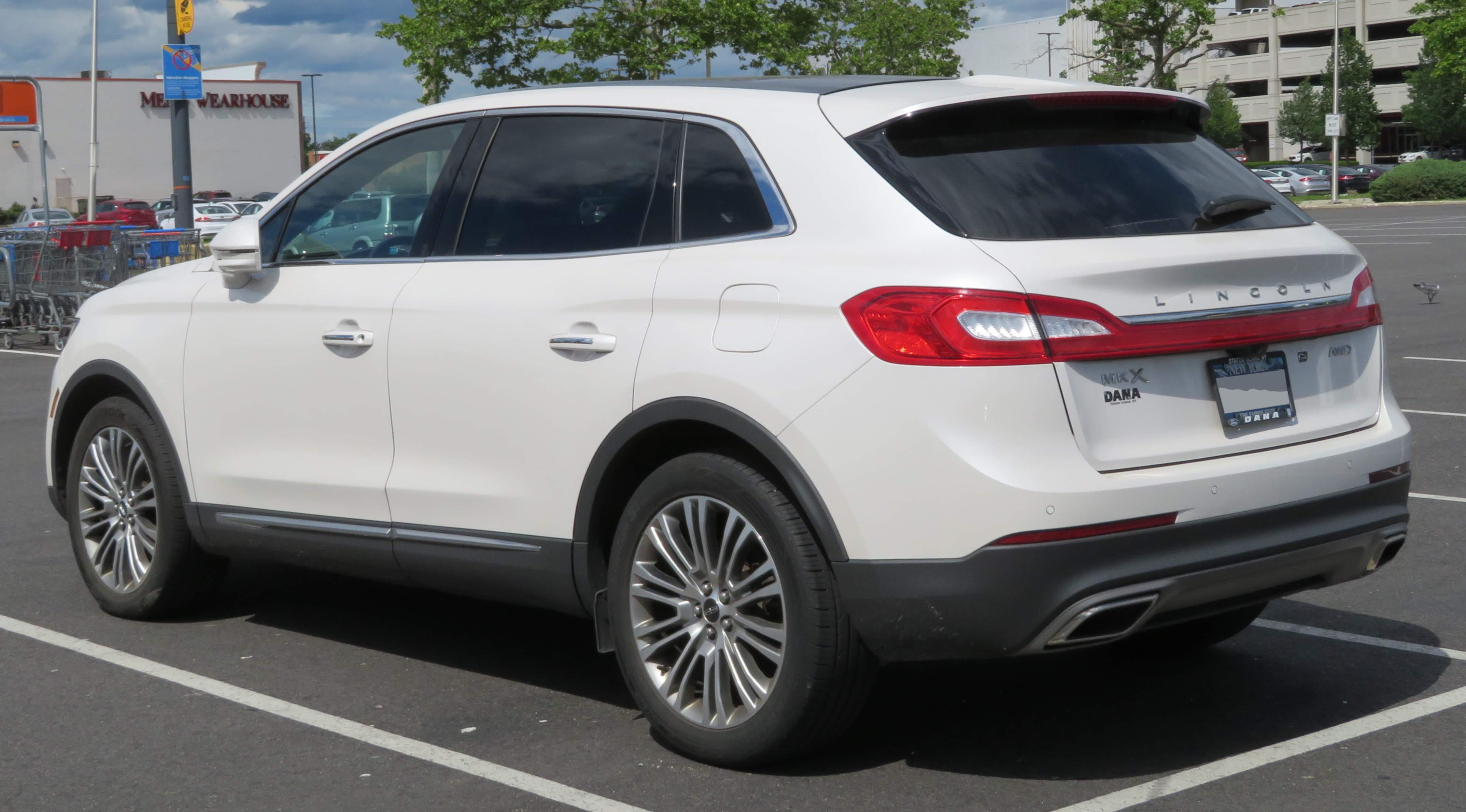 Photographed in Long Island, New York